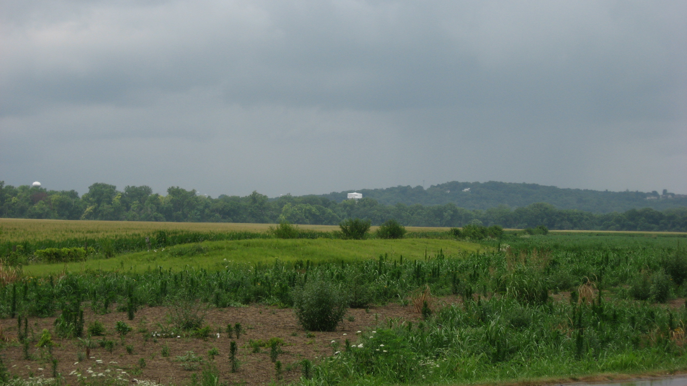 One of the few remaining wall segments of the Hopeton Earthworks, a set of earthworks built by Hopewellian peoples above the Scioto River north of Chillicothe in Springfield Township, Ross County, Ohio, United States. Although many of the earthworks have been destroyed by cultivation, the site has recently become part of the Hopewell Culture National Historical Park, and it has been designated a National Historic Landmark.